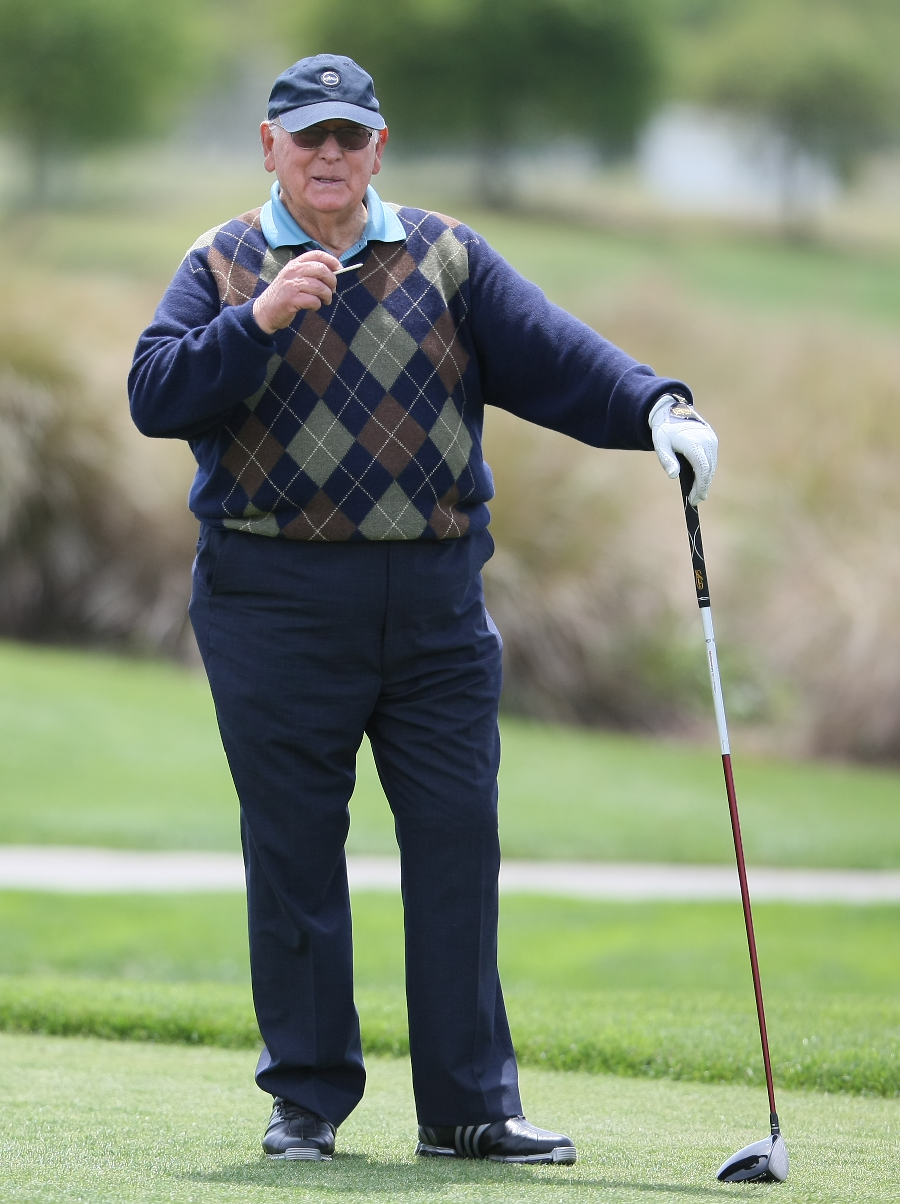 Billy Casper at Legends of Golf in Savannah, GA April 19, 2010